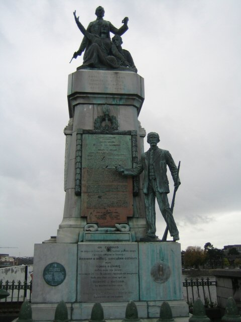 A monument to the 1916 rising, Sarsfield bridge, Limerick. This monument replaces one blown up by the IRA in 1930's. That statue was of limerick man who fought in the Crimean War and went missing in action. A few years after his father built a statue to his memory he reportedly turned up in Afghanistan working as a scout for the Russians. The story inspired Kipling's "The Man Who Was". [1]Down at the docks near the Radisson hotel there are some Russian Cannons which were captured in Crimea and brought to limerick as ballast for ships. This was common practice at the time. A monument to the w:1916 rising, Sarsfield bridge, Limerick. This monument replaces one blown up by the IRA in 1930's. That statue was of limerick man who fought in the Crimean War and went missing in action. A few years after his father built a statue to his memory he reportedly turned up in Afghanistan working as a scout for the Russians. The story inspired Kipling's "The Man Who Was". [2] Down at the docks near the Radisson hotel there are some Russian Cannons which were captured in Crimea and brought to limerick as ballast for ships. This was common practice at the time.